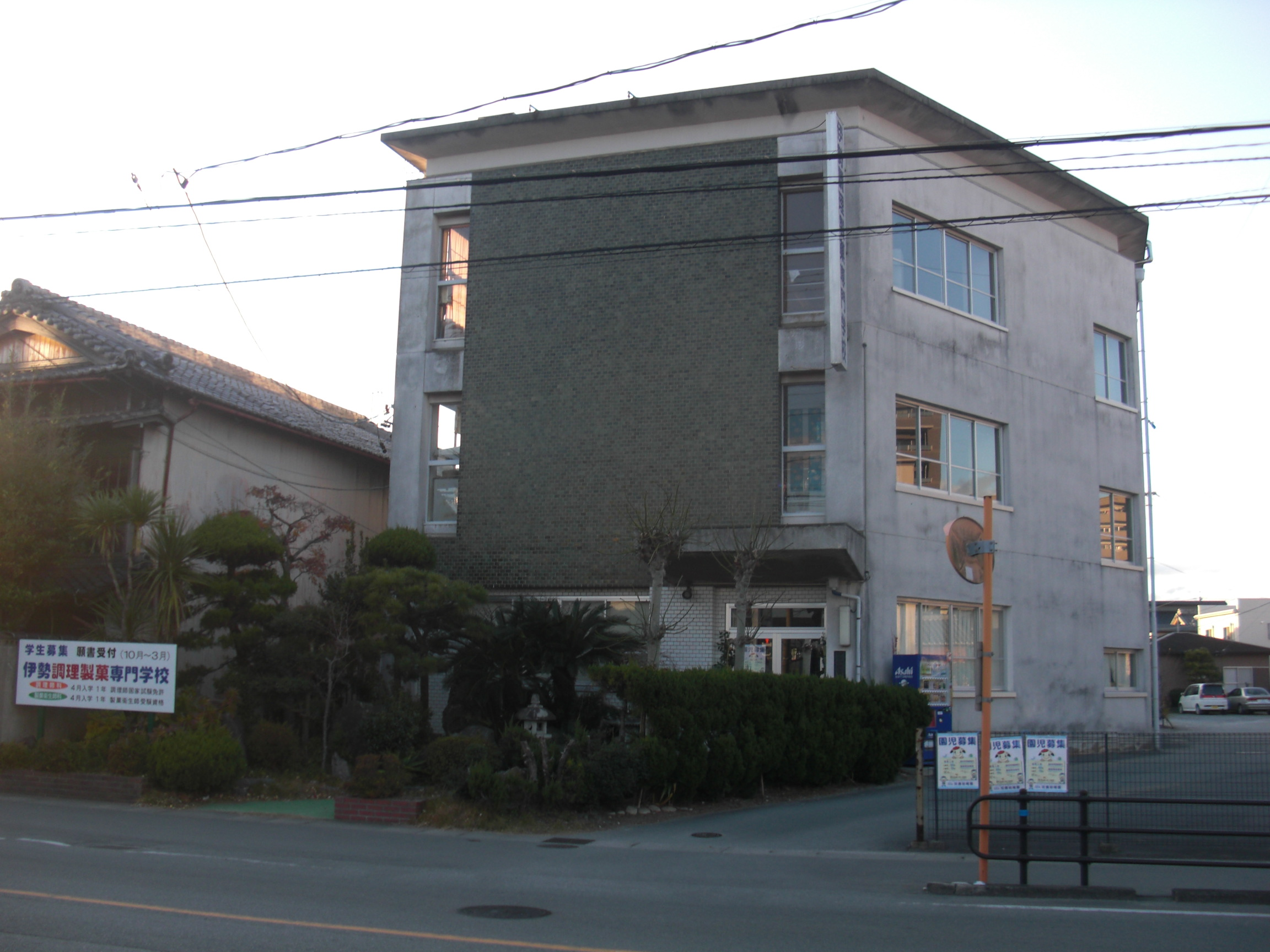 This building is the Ise Chef & Patisserie Vocational School or Ise Chori Seika Semmon Gakko, Which is located in Ise, Mie, Japan.